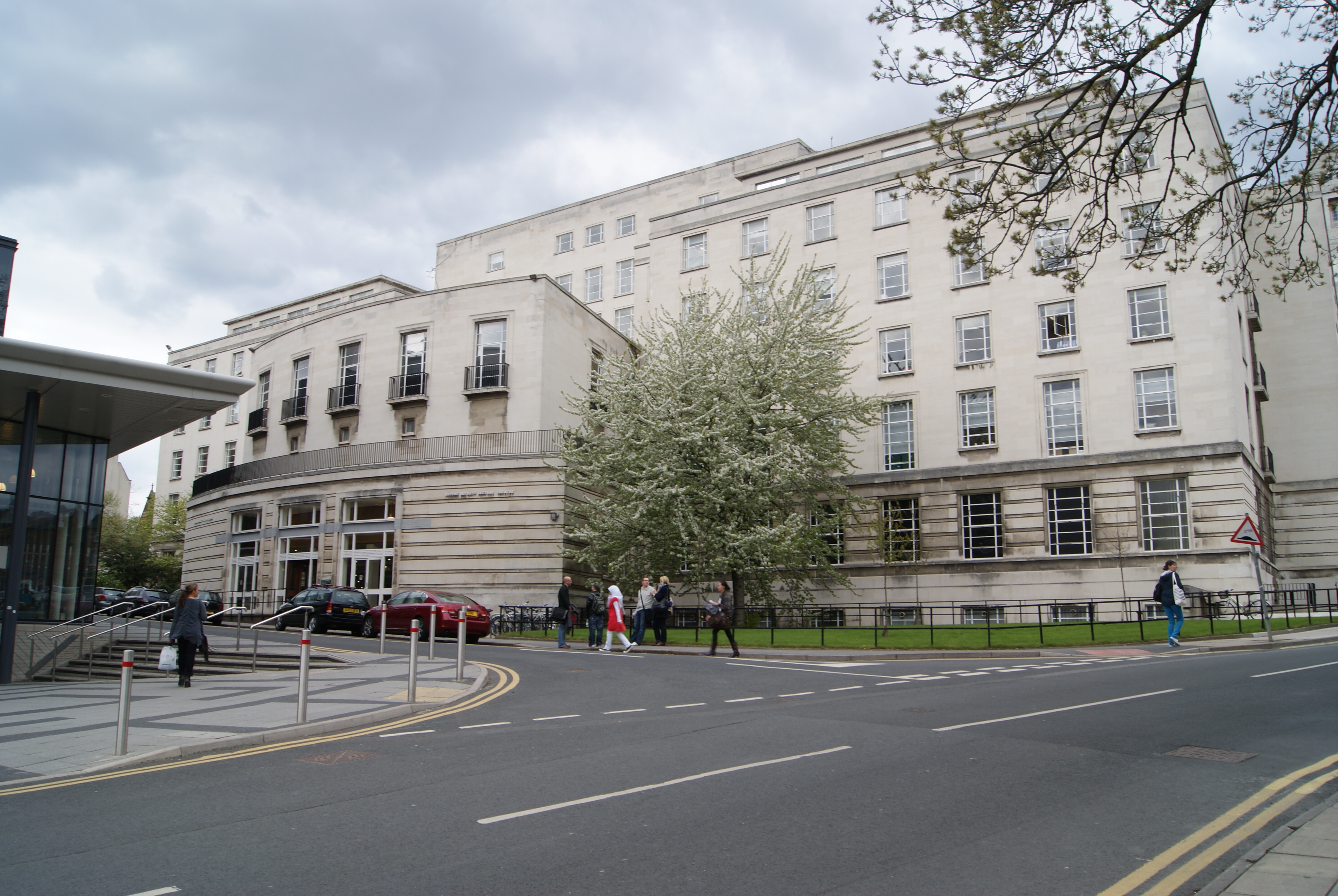 The Michael Sadler Building at the University of Leeds. Taken on the afternoon of Tuesday the 4th of May 2010.